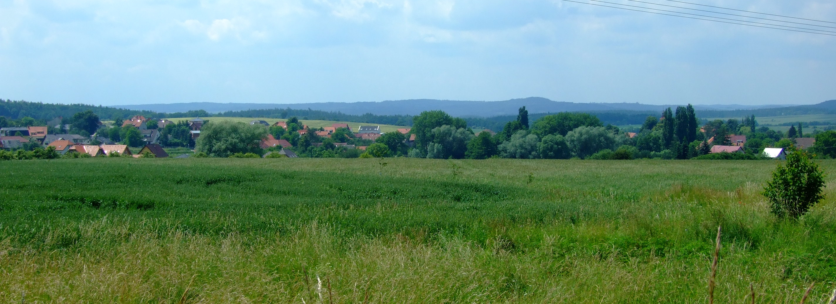 View on Svárof village from Červený Újezdhelp